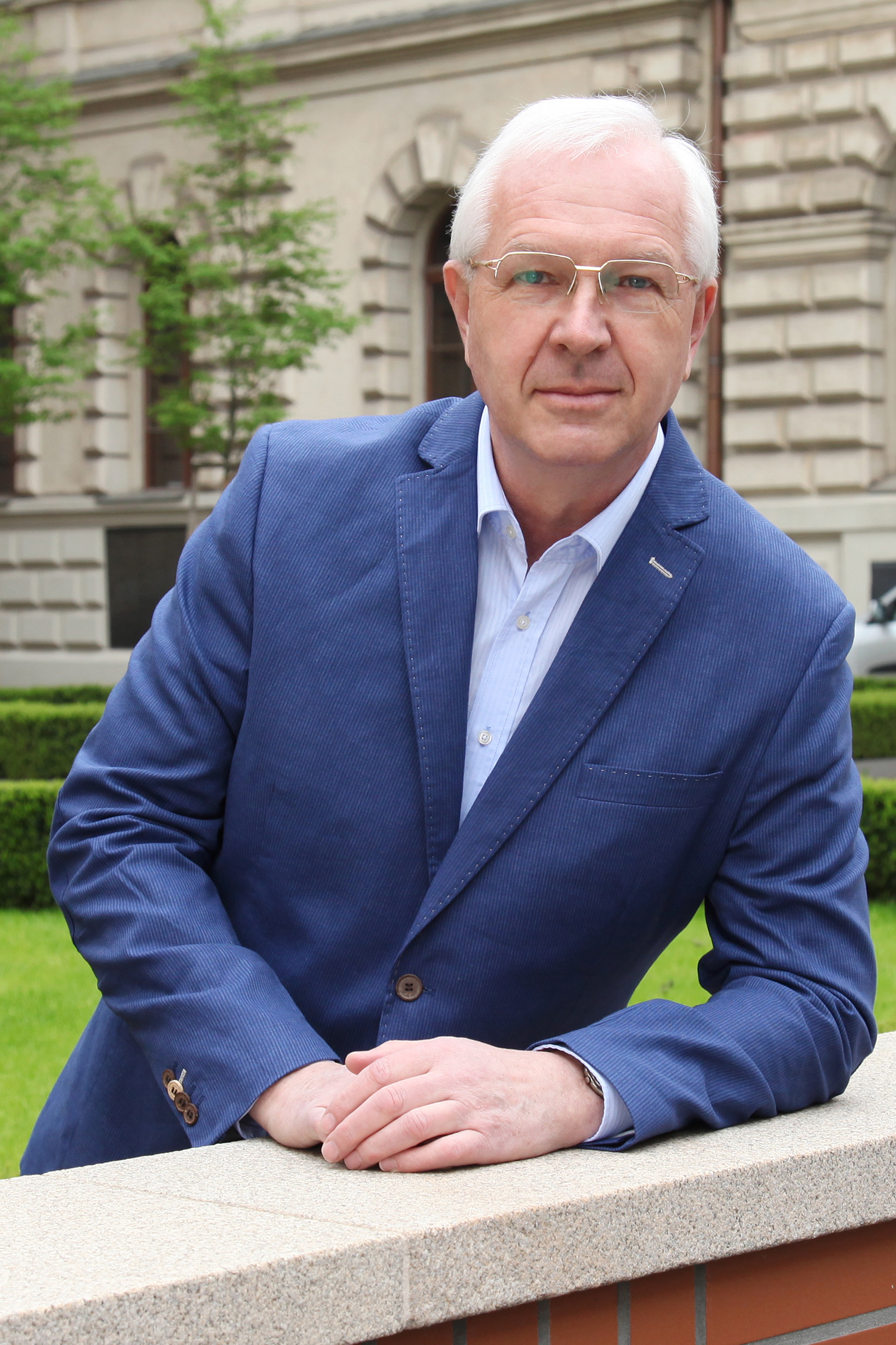 Jiří Drahoš (born 20 February 1949) is a Czech physical chemist and politician who served as President of the Czech Academy of Sciences from 2009 to 2017, and was a candidate for the President of the Czech Republic in the 2018 election.